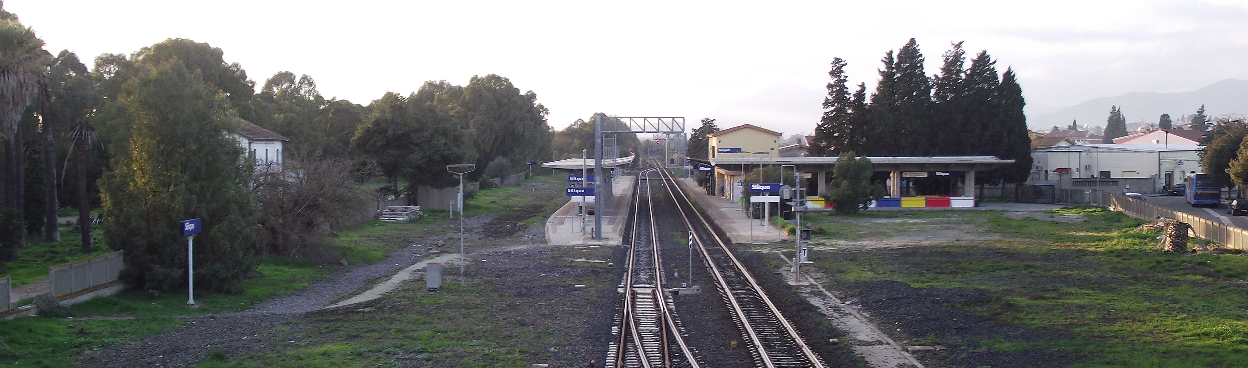 The rail area of Siliqua, in Sardinia, Italy. On the right the RFI station with its tracks, on the left the former FMS station, closed in 1968.